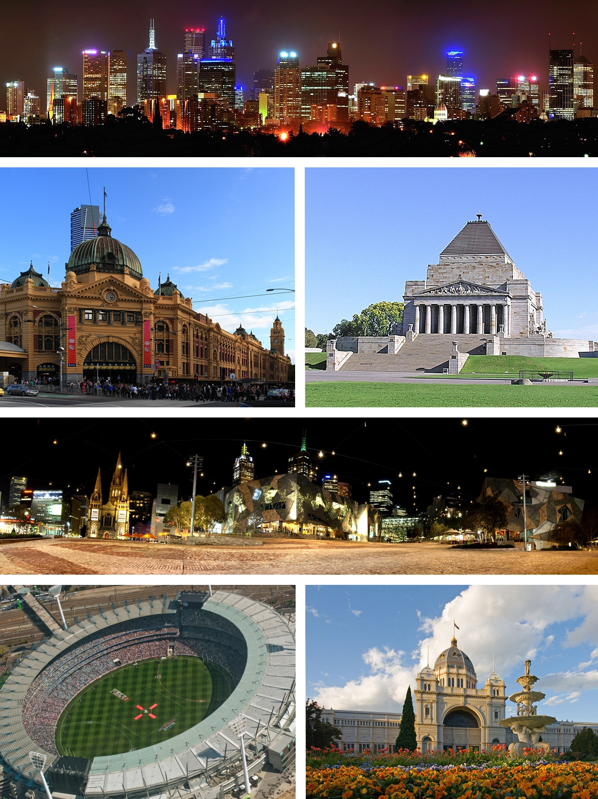 Another alternative six frame montage of Melbourne. Images from top, left to right: Melbourne far night skyline from File:Melbourne_Night_Panorama.jpg Author, Jes Flinders Street Station from File:Flinders_street_train_station_melbourne.jpg Author, Adam.J.W.C. Shrine of Rememberance from File:Shrine_of_Remembrance_1.jpg Author, Donaldytong Federation Square from File:FederationSquare-panorama.jpgAuthor, Vincent Quach (Invincible) Melbourne Cricket Ground from File:AFL Grand Final 2010 on the Melbourne Cricket Ground.jpg Author, Alexander Sheko Royal Exhibition Building from File:Royal_exhibition_building_tulips_straight.jpg Author, Photograph taken by Diliff and straightened by Ikiwaner